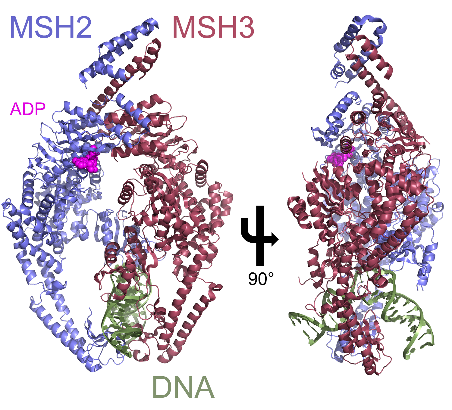 Crystal structure of MutS-beta, the complex of MSH2 and MSH3. PDB 3THX